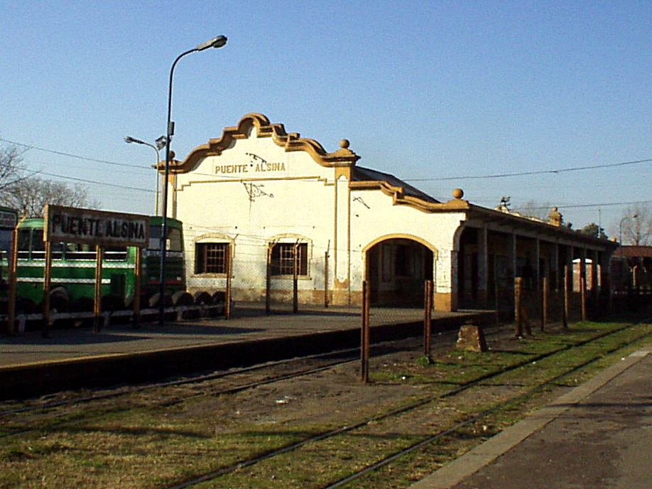 Puente Alsina station (Buenos Aires, Argentina)